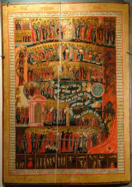 Icon of the Last Judgment, the "Day of the Lord" (19th century)